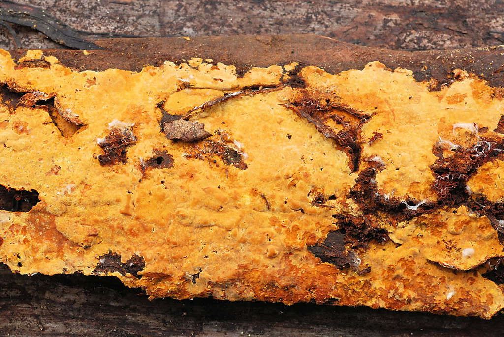 fruiting body in fresh state